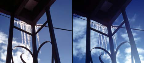 Comparison between photograph with and without 80A blue filter I release this image file to be used under the terms of the GNU Free Documentation License. The file is a low resolution image of slides I shot, and I retain the original slides and their copyright, and any images directly made from the original slides. New images based on this image file may be made, but they would also fall under the terms of the GNU Free Documentation License. -- Del arte